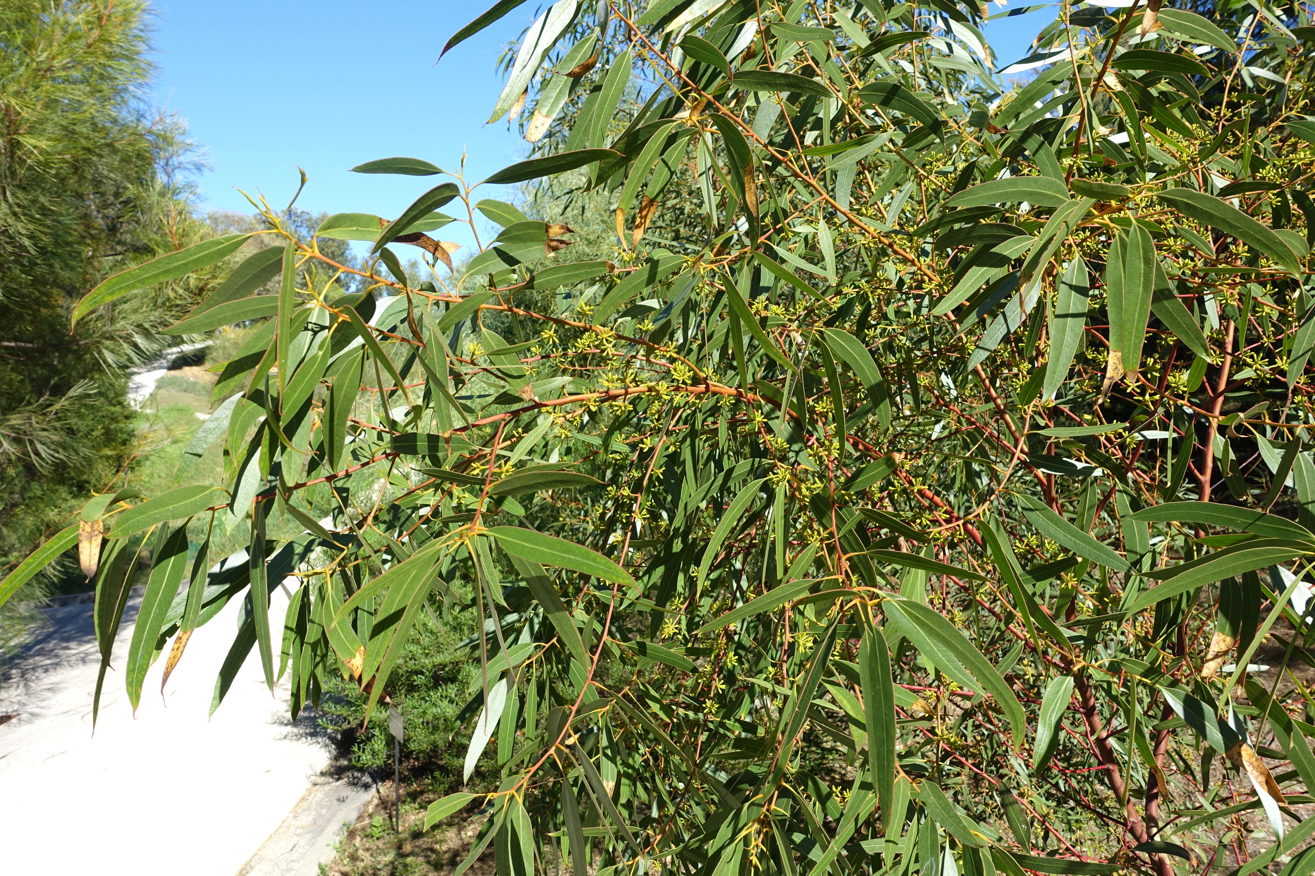 Botanical specimen in the Jardín Botánico de Barcelona - Barcelona, Spain.